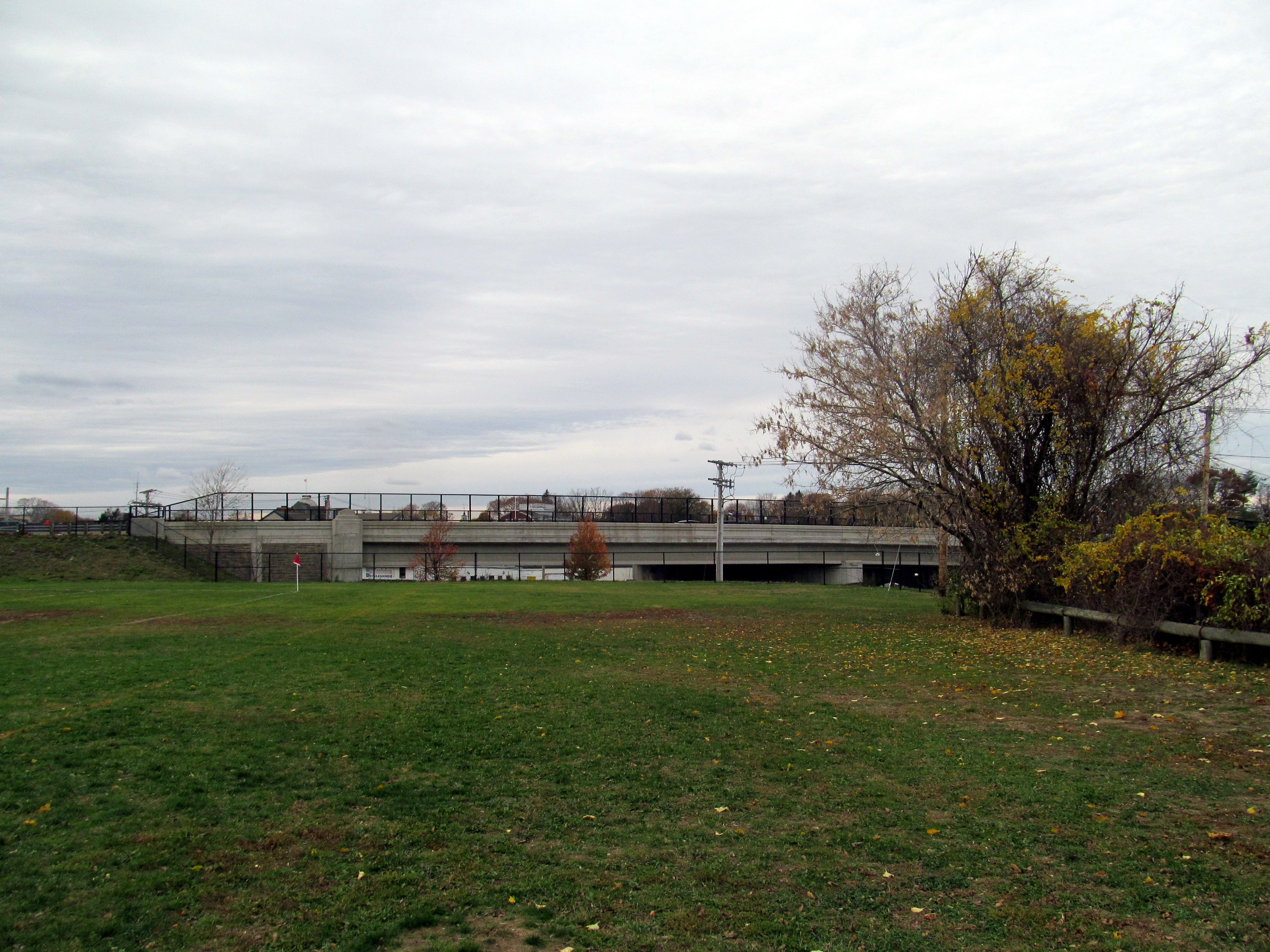 Site of the former Dedham station, closed in 1967. The station building was located in the far center of the shot just before the overpass; the grassy area (now a sports field) was once a rail yard.